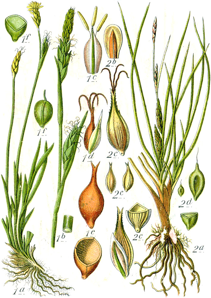 1. Carex michelii Host 2. Carex hordeistichos Vill. Original Caption 1. Micheli's Segge, Carex michelii 2. Gersten-Segge, C. hordeistichos